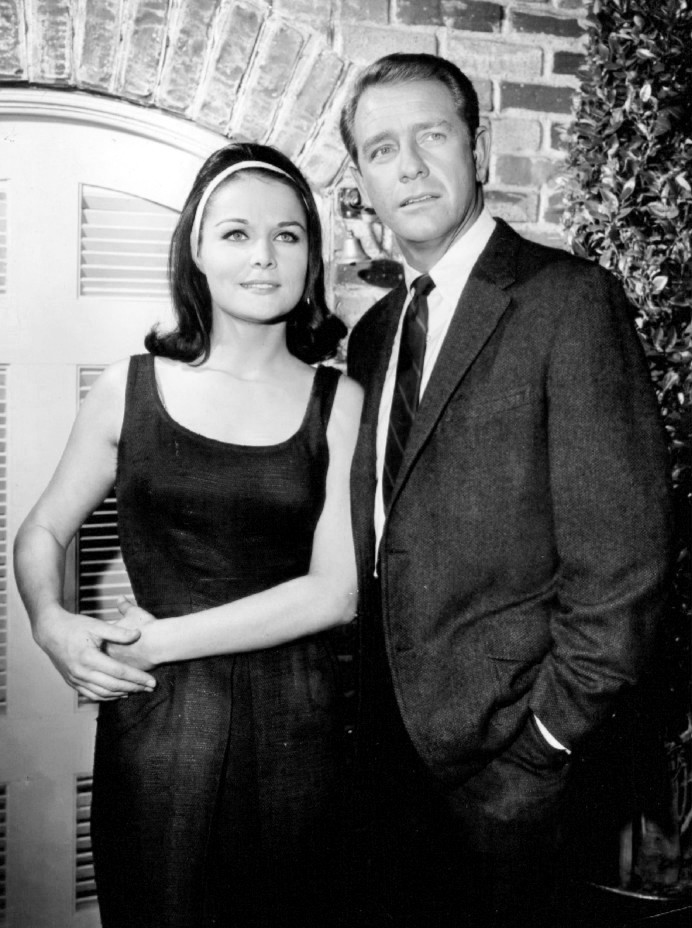 Photo of Joan Blackman and Richard Crenna from the television program Slattery's People.